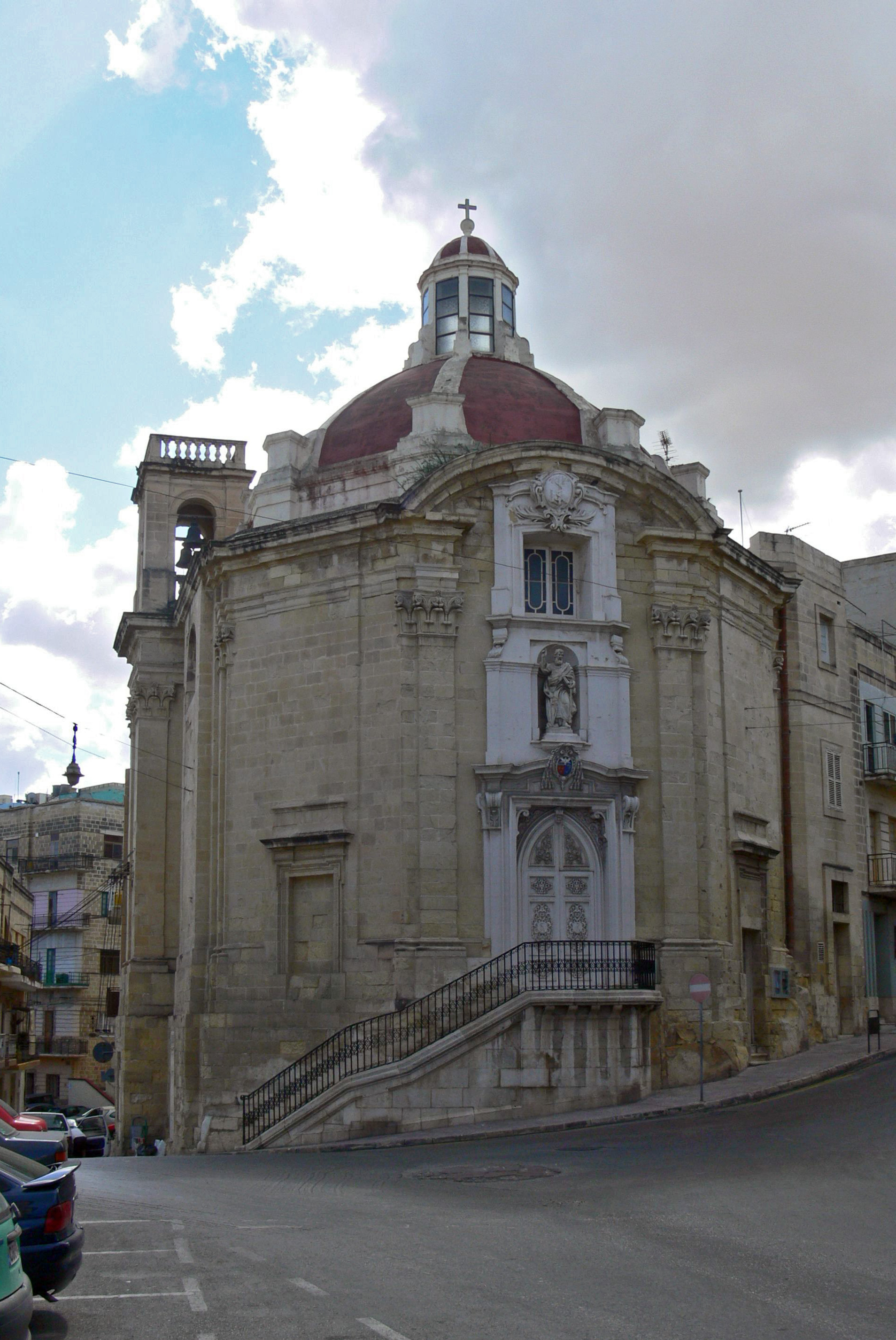 St. Paul church in Bormla (Citta Cospicua), Malta